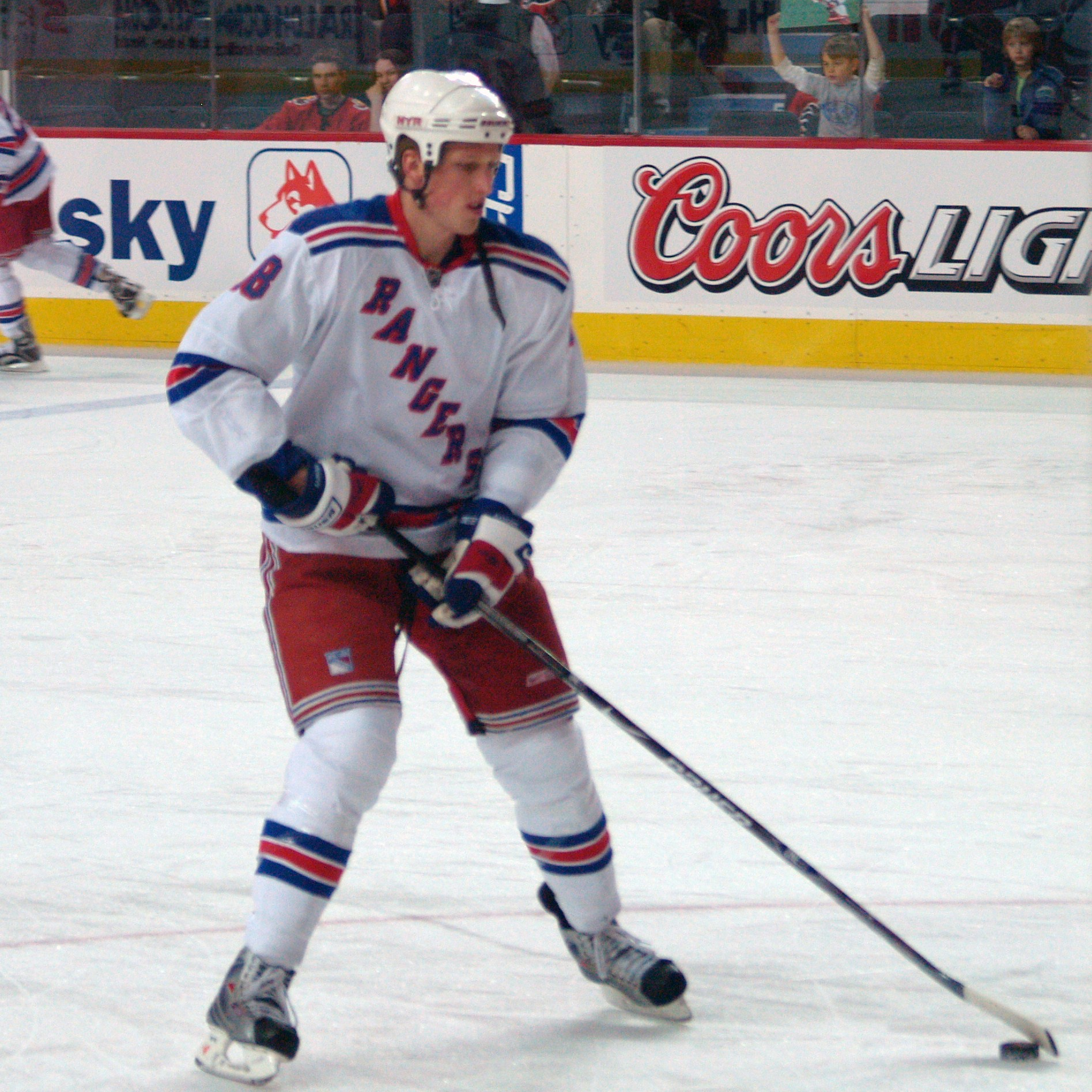 Marc Staal of the New York Rangers in a pre-game skate in Calgary